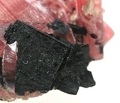 Rhodonite, Bannisterite Locality: Broken Hill, Yancowinna County, New South Wales, Australia (Locality at ) Size: 2.5 x 2 x 1.6 cm. A superb thumbnail. This piece has excellent crystals of both species, and is quite aesthetic as well. Complete-all-around.